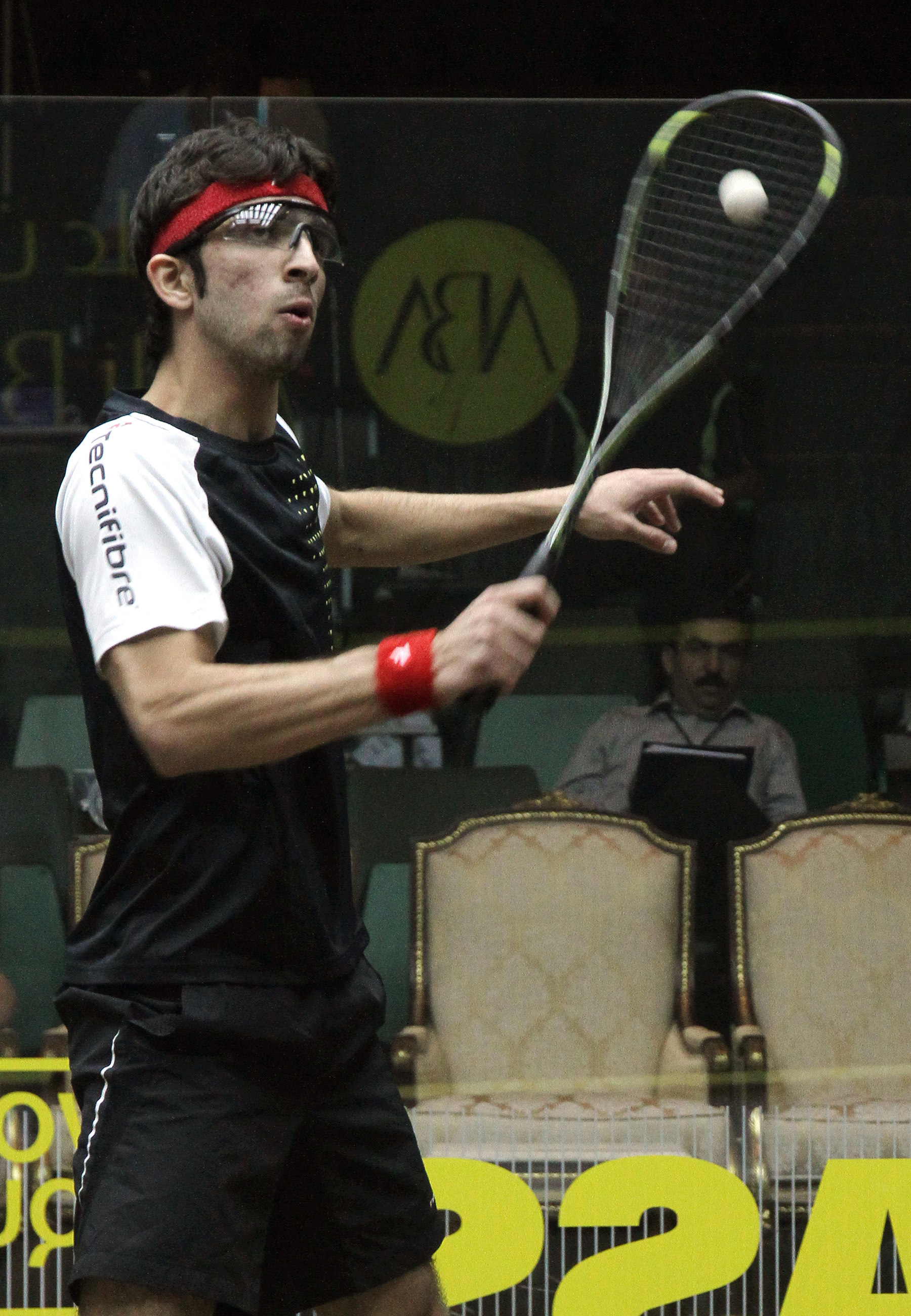 Pakistan's Danish Atlas Khan in action during the World Junior Squash Championships in Doha. Picture by Vinod Divakaran